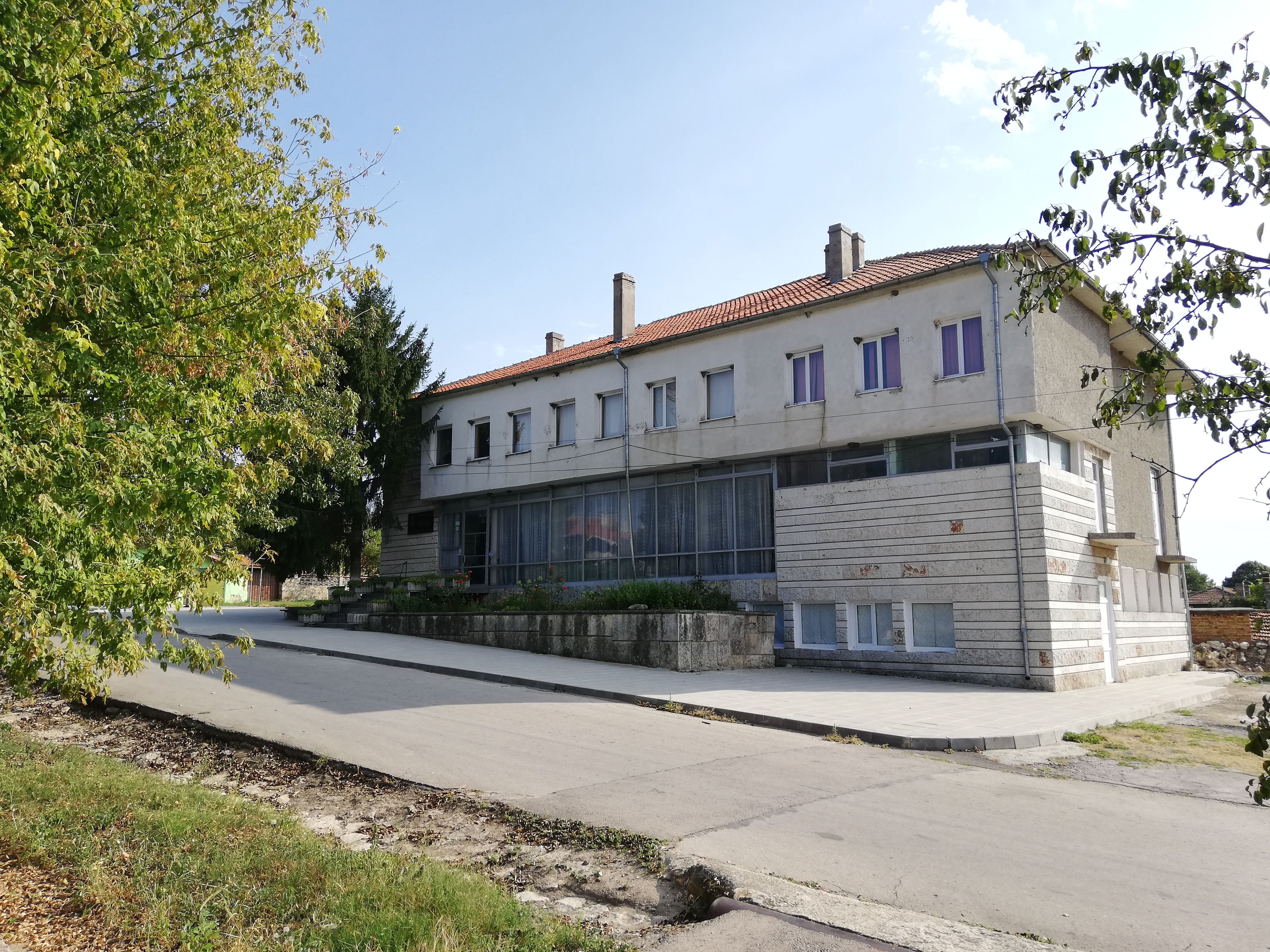 Vicho Ivanov lycaeum at Petrov dol, Varna province, Bulgaria